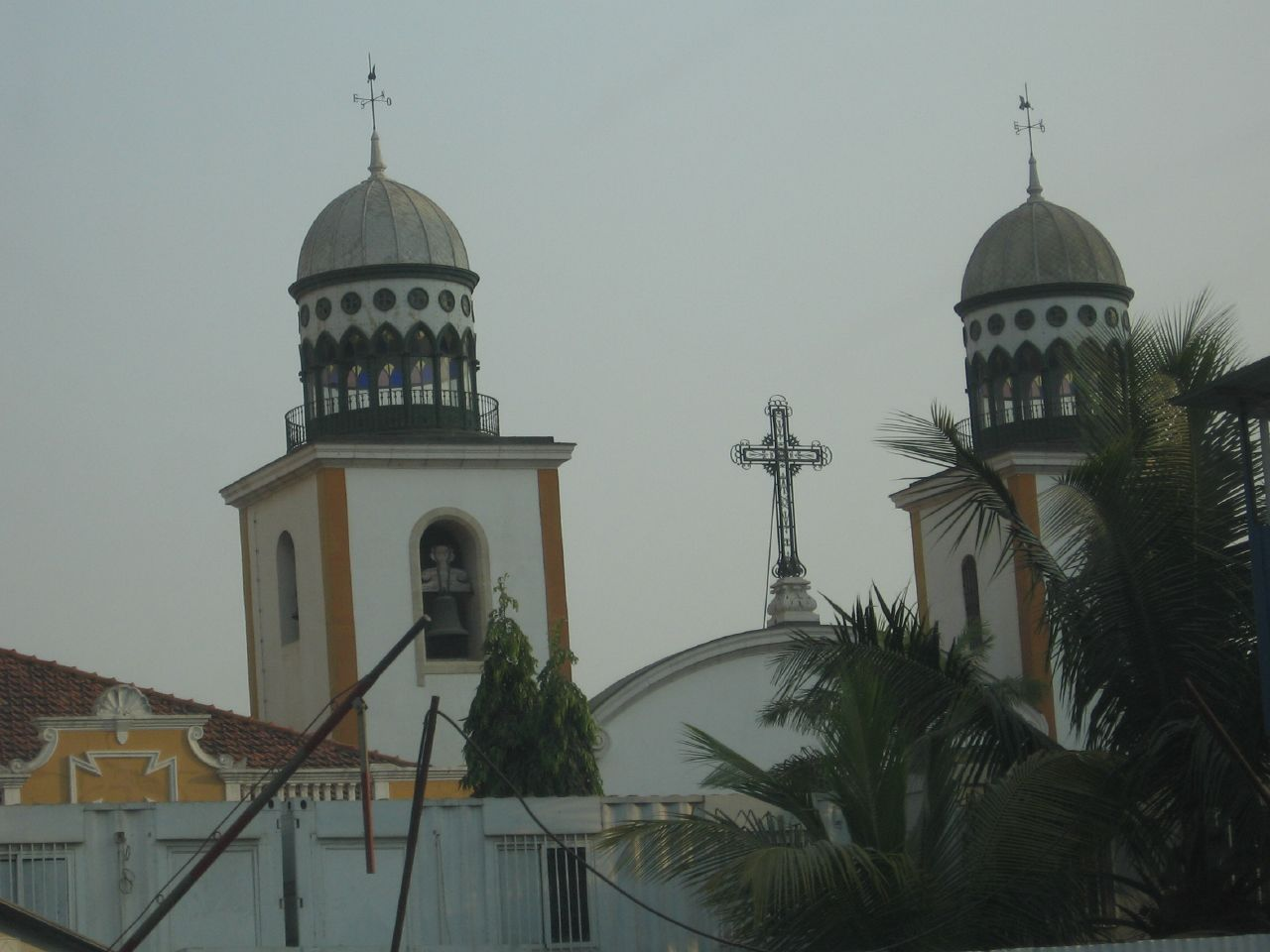 Church in Luanda, Angola. Cathedral of Archdiocese of Luanda